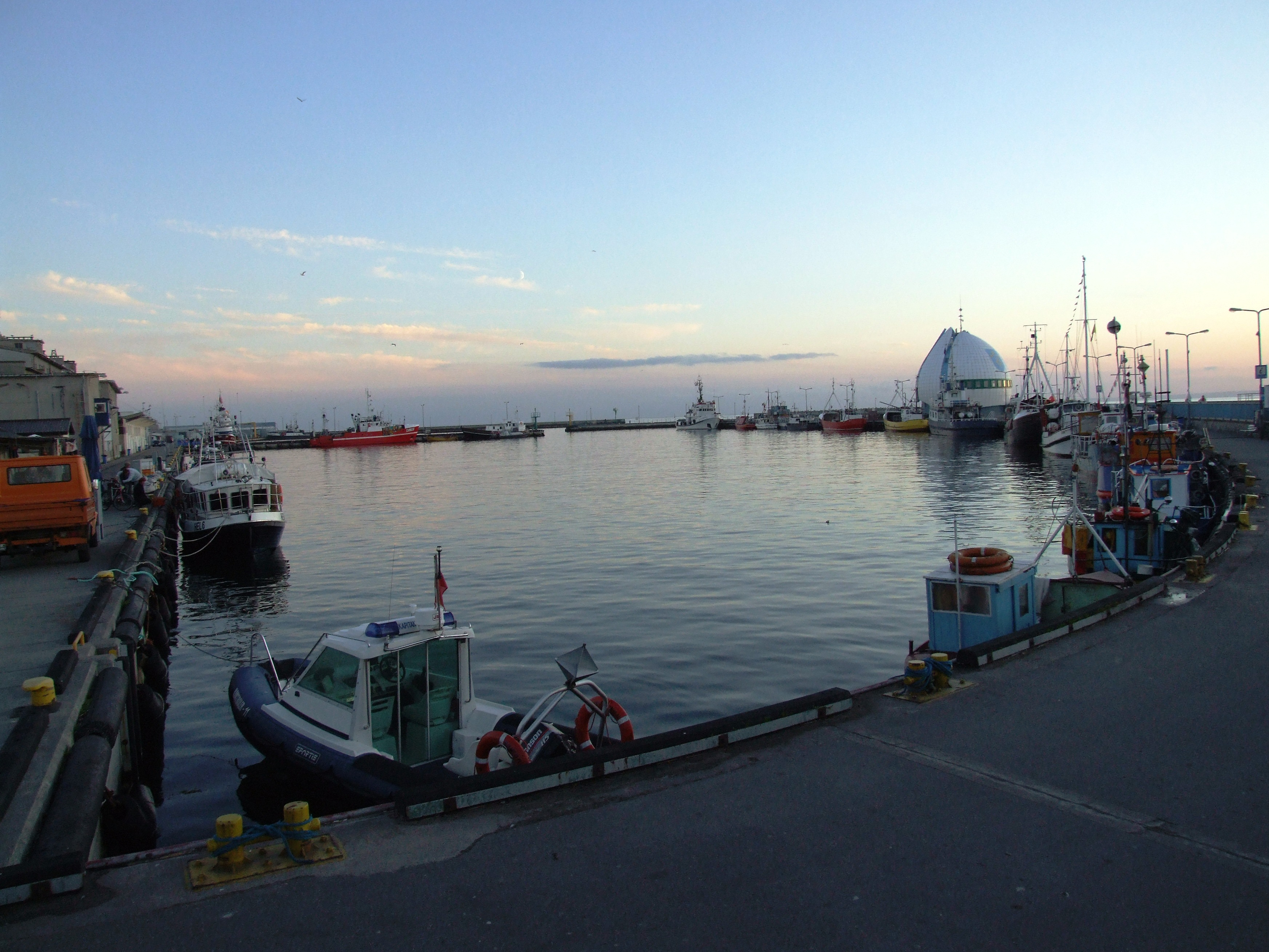 Hel harbour (view from the head of a breakwater), Hel Peninsula (Poland)